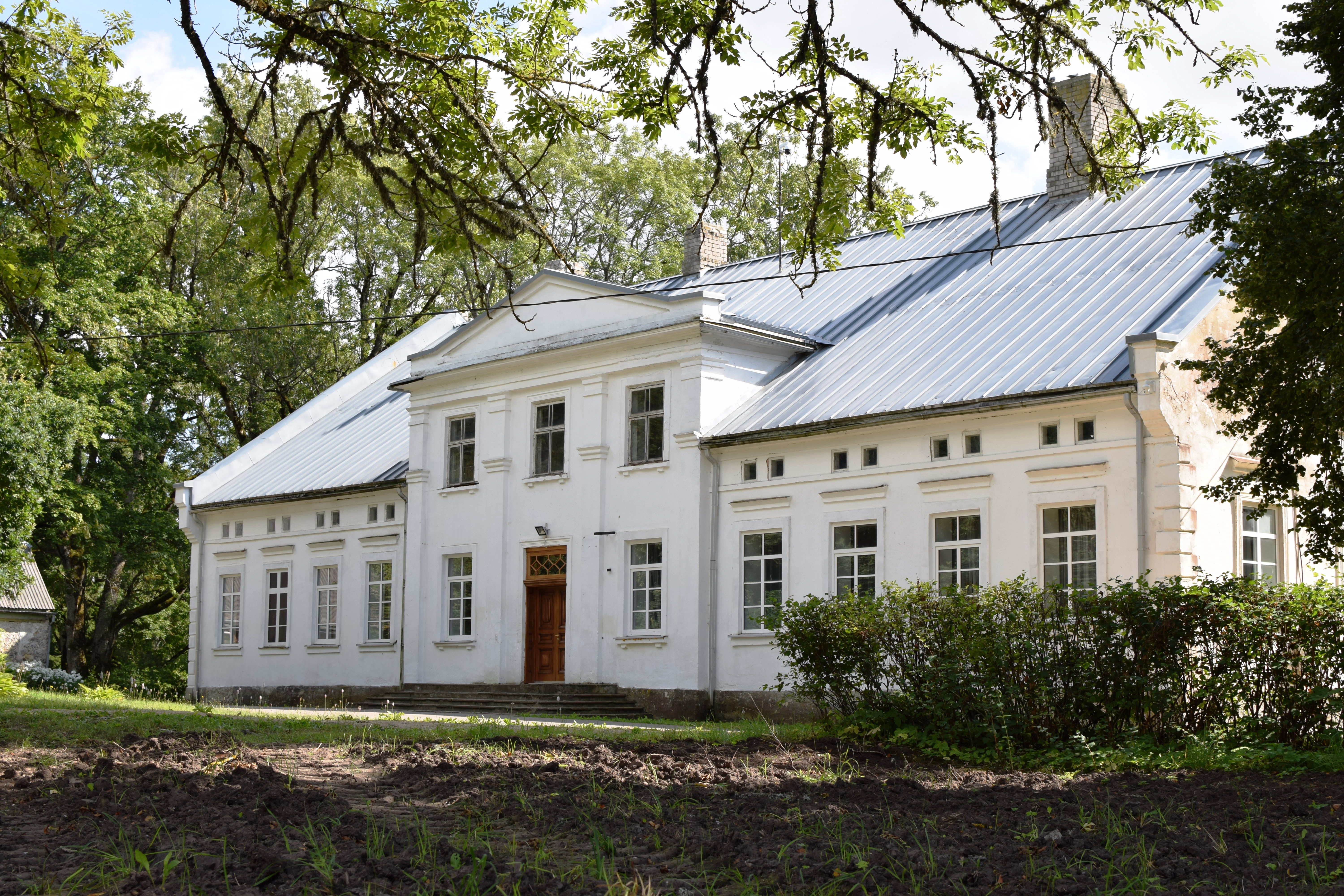 Vaiņode Municipality